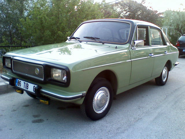 Anadol A2 four-door saloon with Ankara license plates